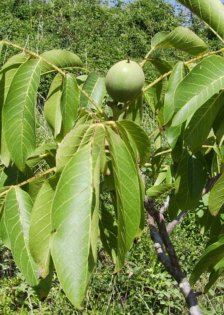 An spontaneous (Juglans regia) walnut, Castelltallat, Catalonia